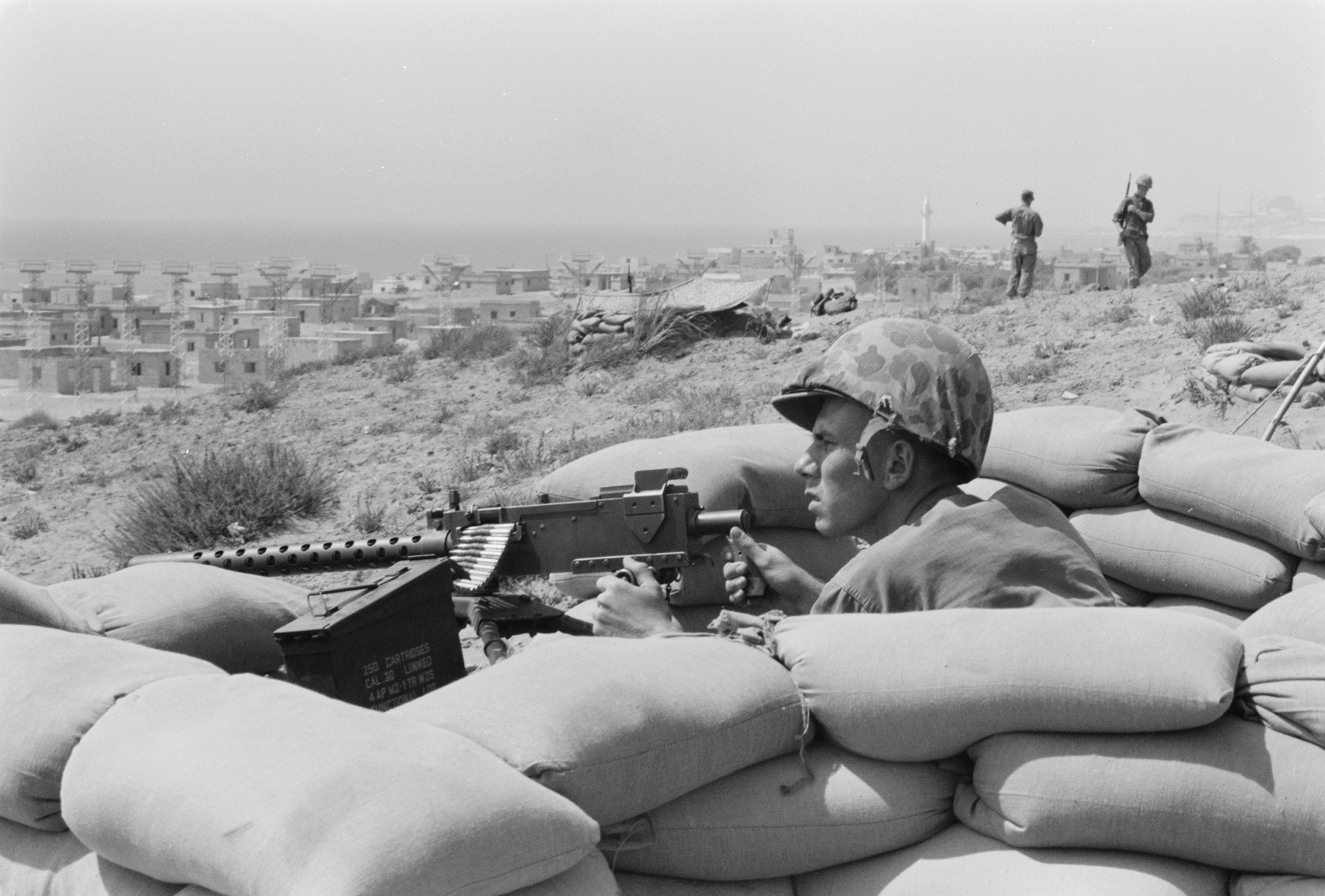 U.S. Marine sits in a foxhole and points a machine gun towards Beirut, Lebanon, in the distance